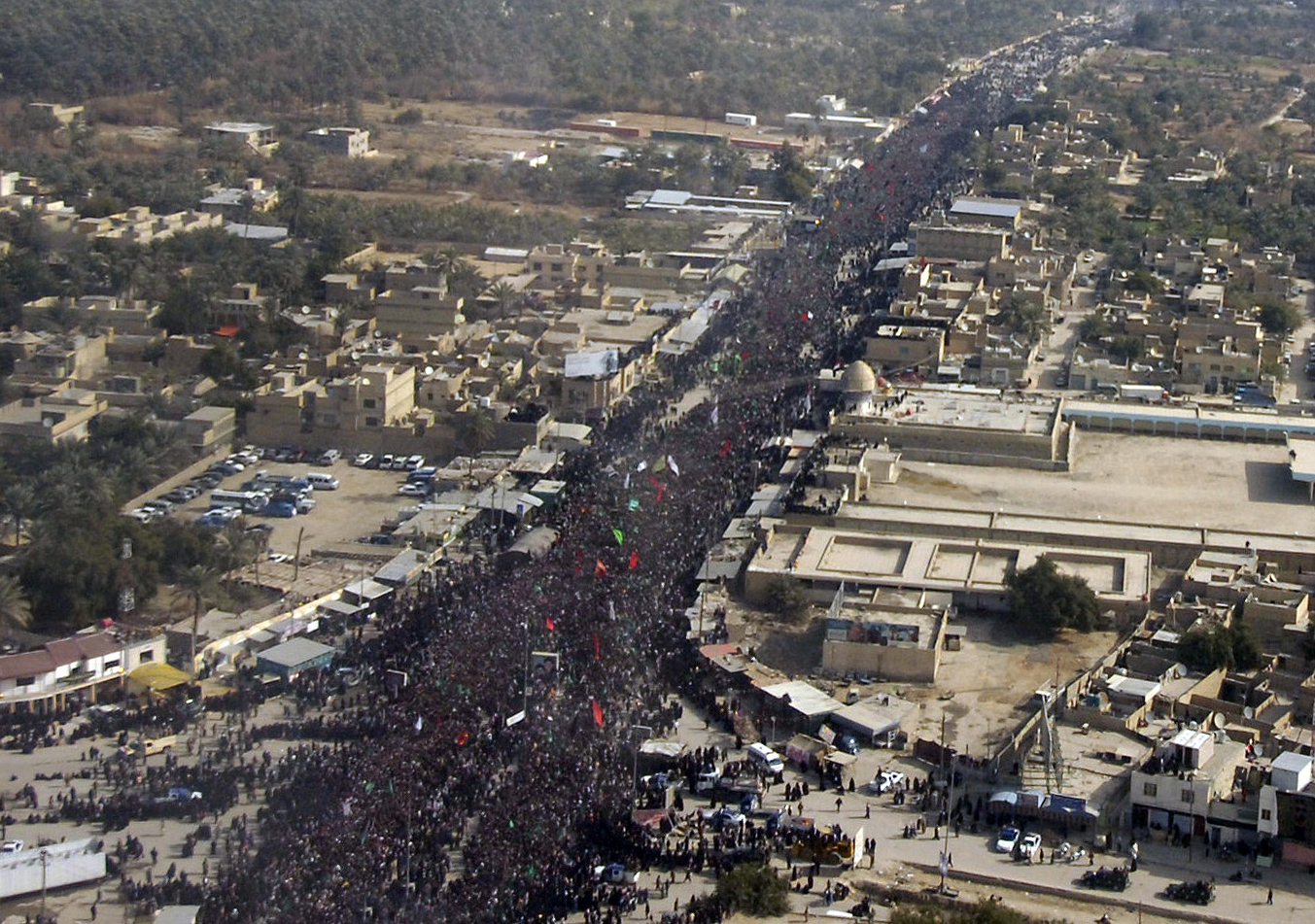 Pilgrims gather for the Ashura ritual in Karbala, Iraq, Jan. 19, 2008. The 10-day event commemorates the death of Imam Hussein, the grandson of the prophet Mohammad, 1,300 years ago. About 2.5 million people are estimated to have gathered in Karbala this year and Iraqi security forces have increased their operations in southern Iraq to protect the pilgrims.